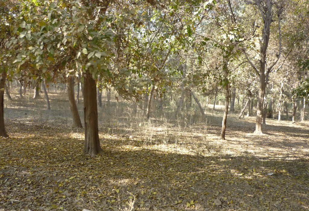 a beautiful view of jungle